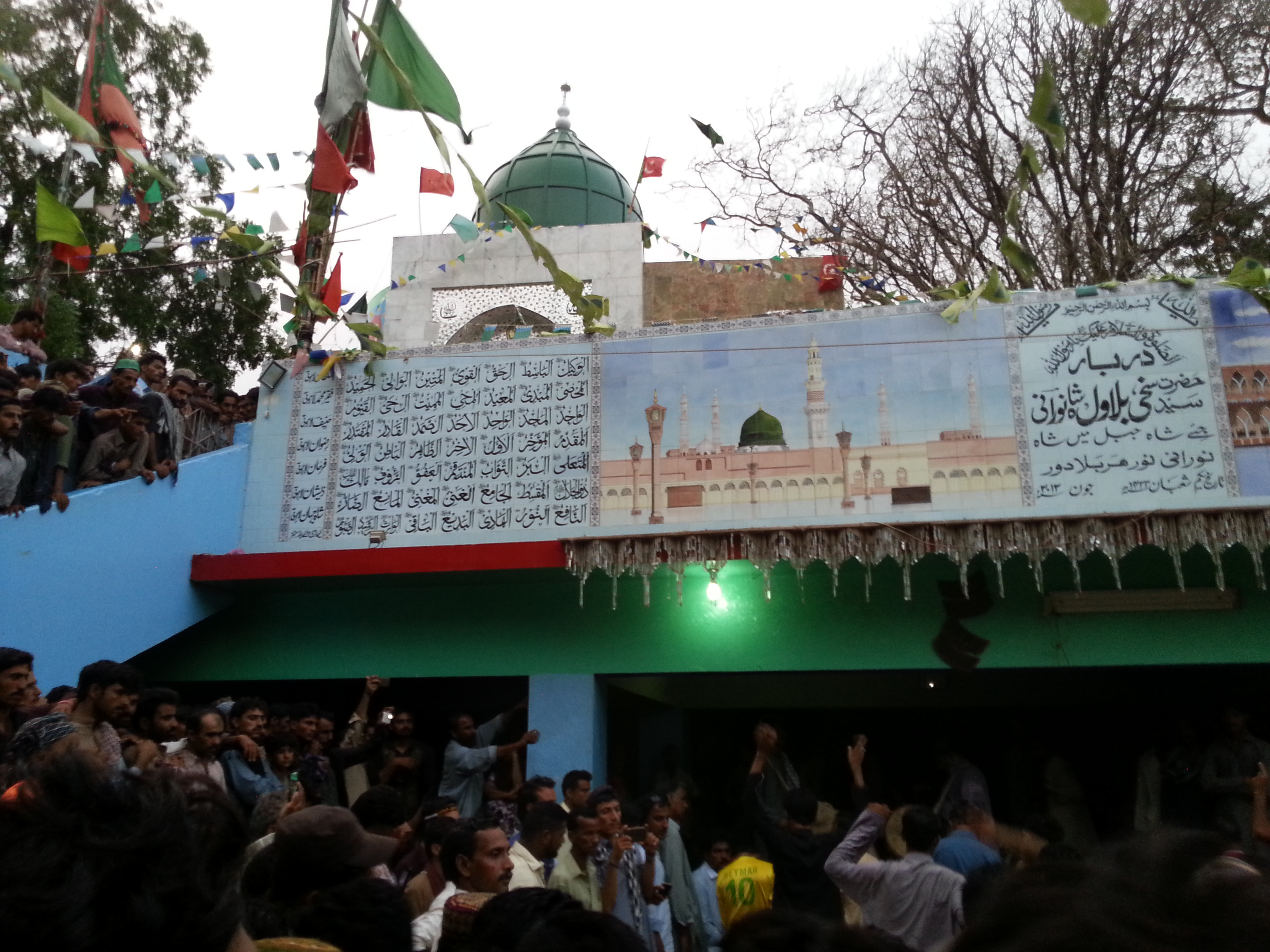 Shah Bilawal's Shrine This is a photo of a monument in Pakistan identified as the BA-U-11